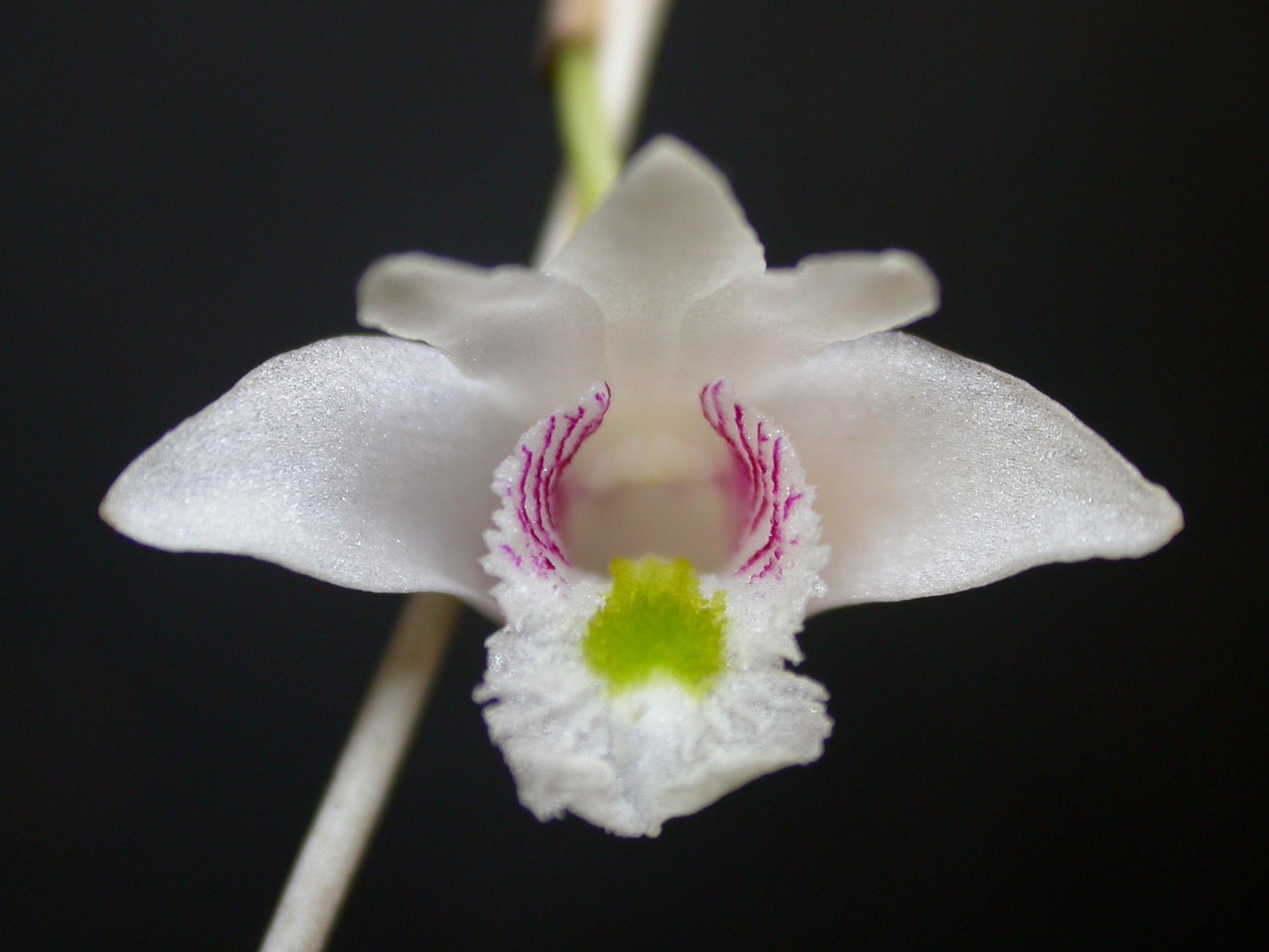 Ceraia aff. clavator - Plant without apparent pseudobulbos, compressed flat distical leaves, long leafless terminal stem.